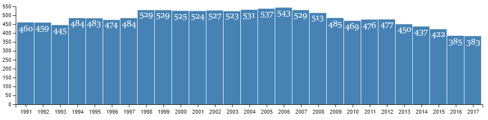 Population of Greenlandic settlement Ittoqqortoormiit in 1991-2017